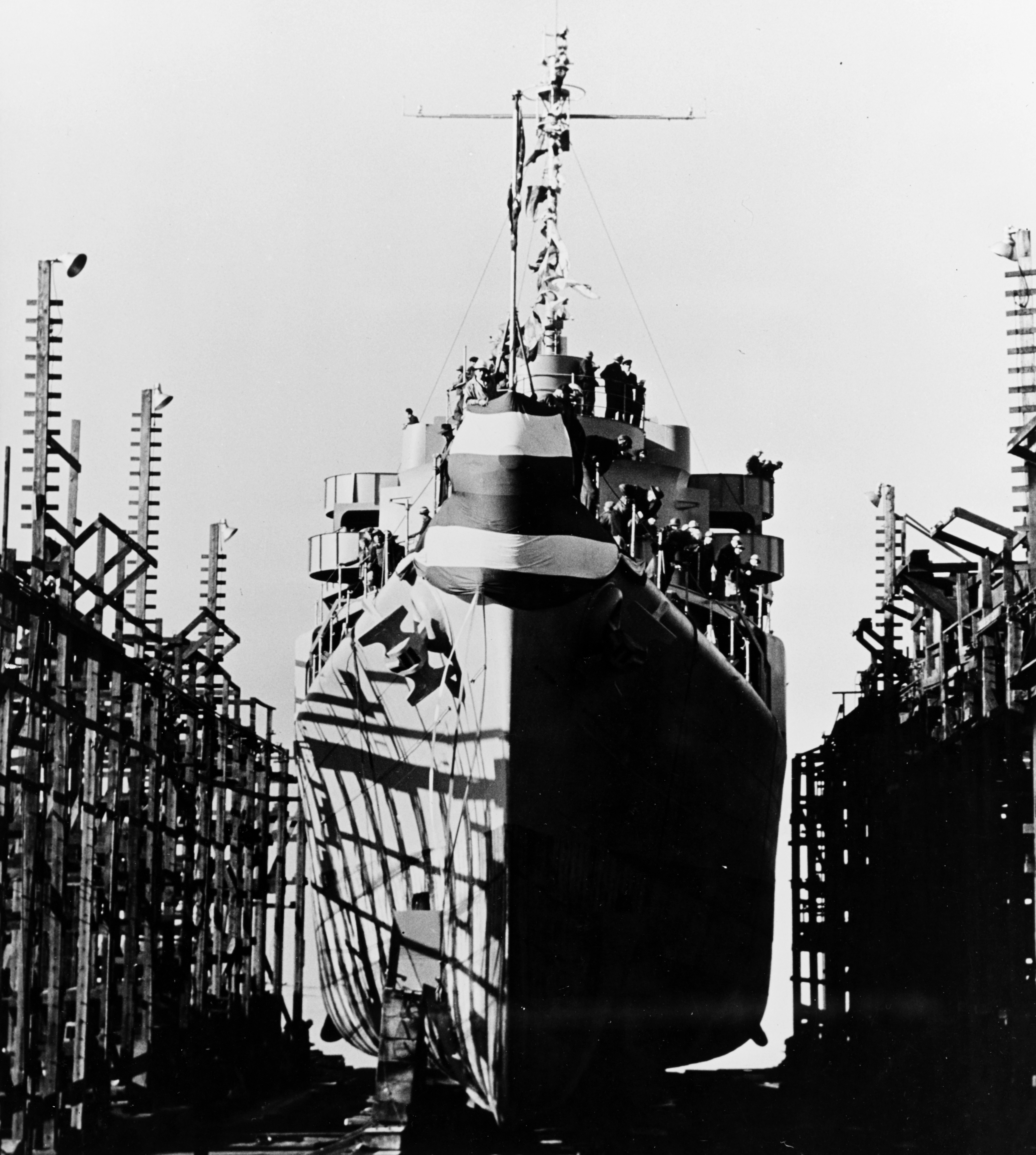 The U.S. Navy small seaplane tender USS Floyds Bay (AVP-40) being launched at the Lake Washington Shipyard, Houghton, Washington (USA), on 28 January 1945.